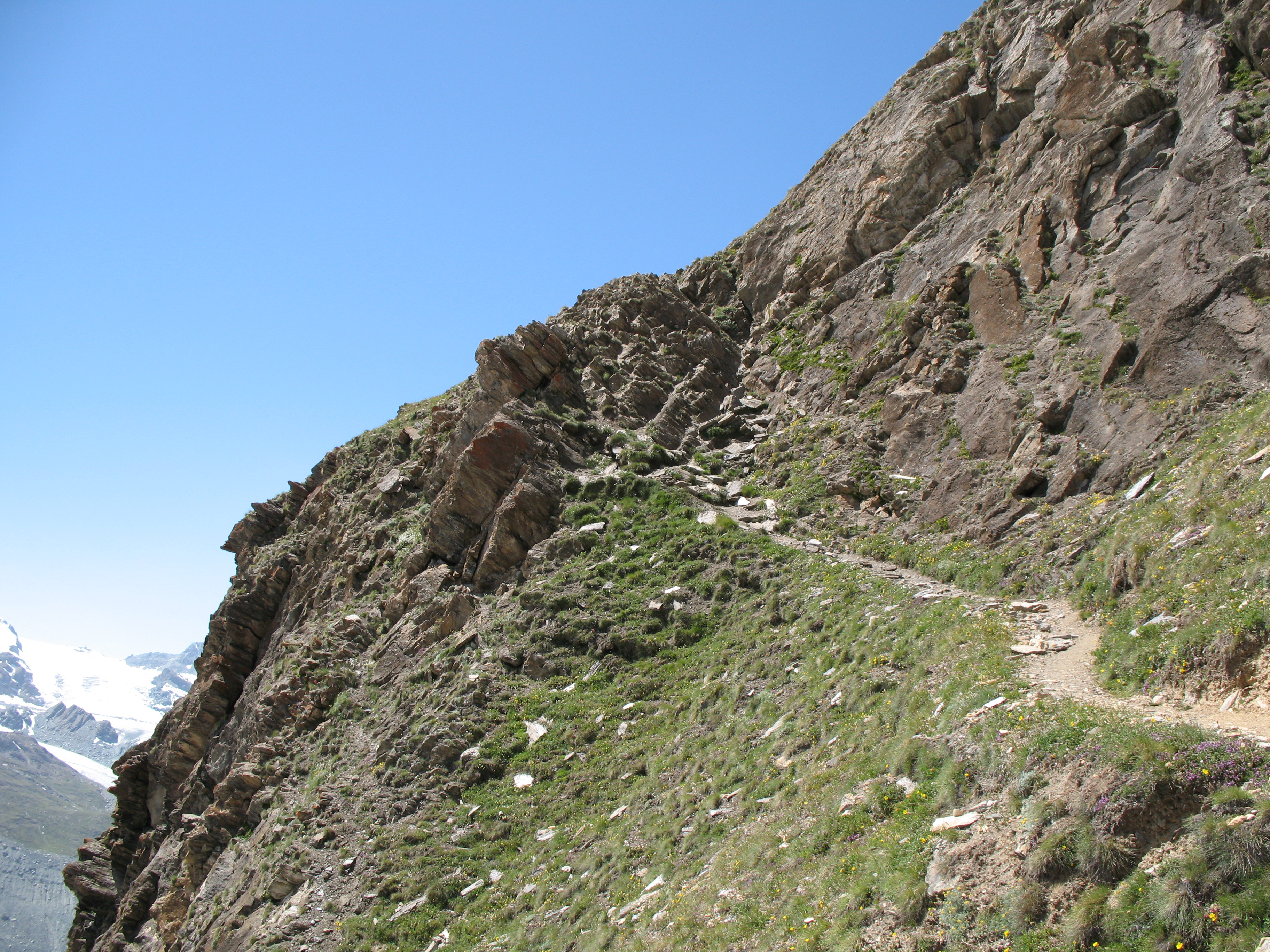 Gornergrat / Zermatt, Switzerland